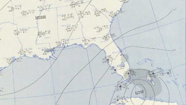 Surface weather analysis of Hurricane Fox on 25 October 1952.